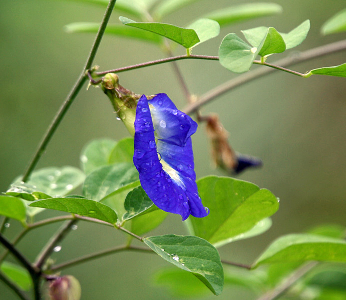 Mussel-shell climber- Butterfly pea- Aparajita Clitoria ternatea. Kolkata, West Bengal, India